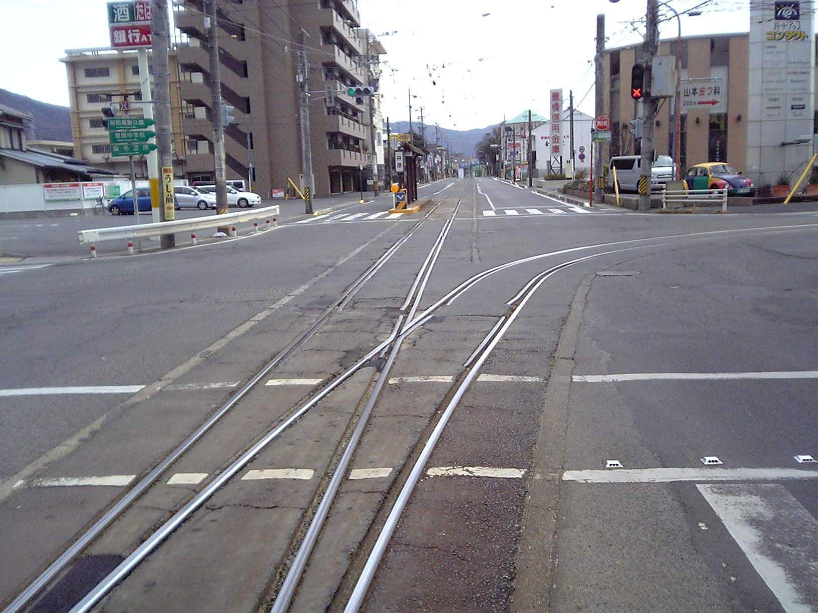 Toyohashi Railroad Ihara Station, view towards Akaiwaguchi (straight ahead) and Undokoenmae (to the right)